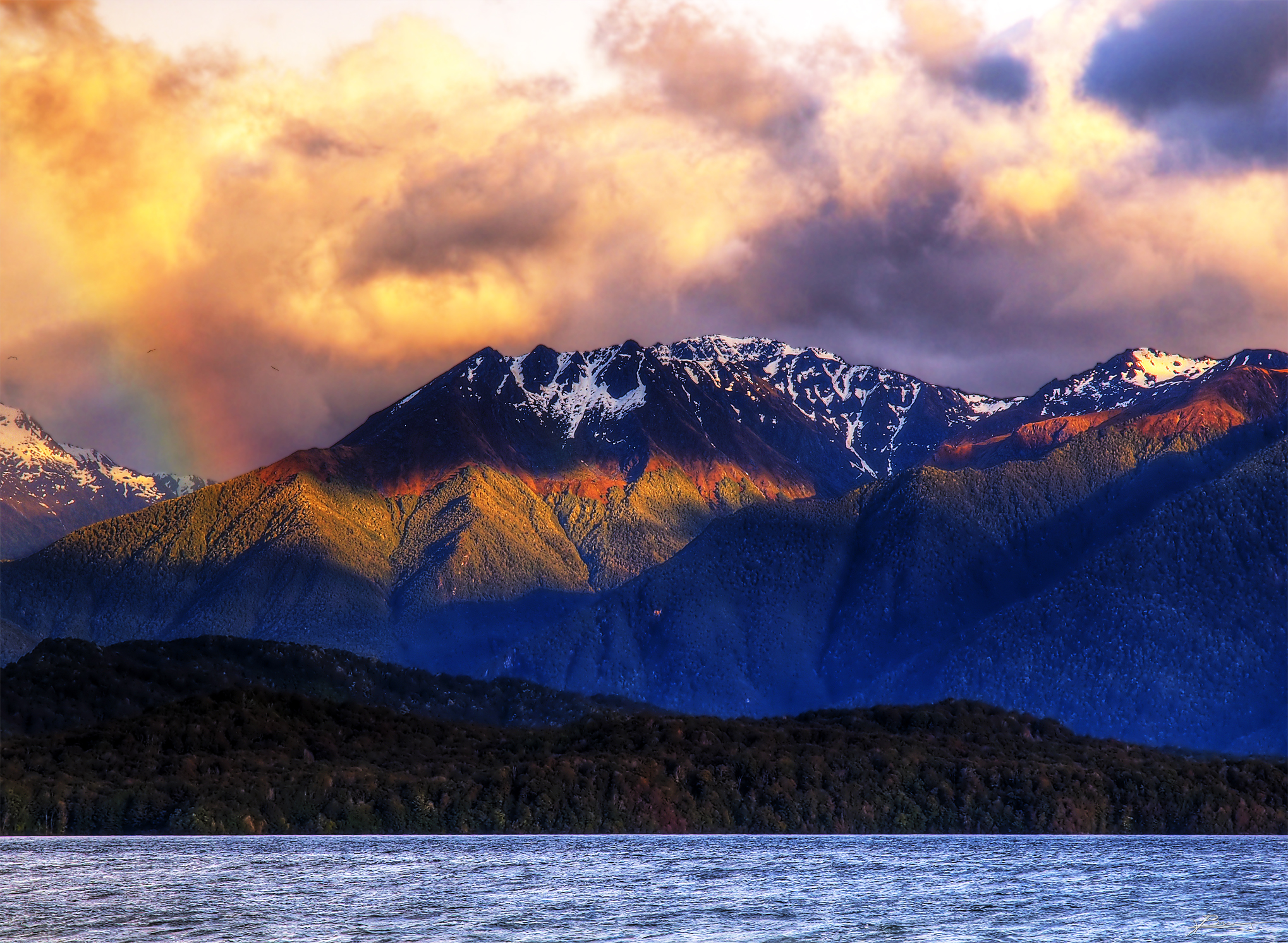 Fiordland - Te Anau, New Zealand